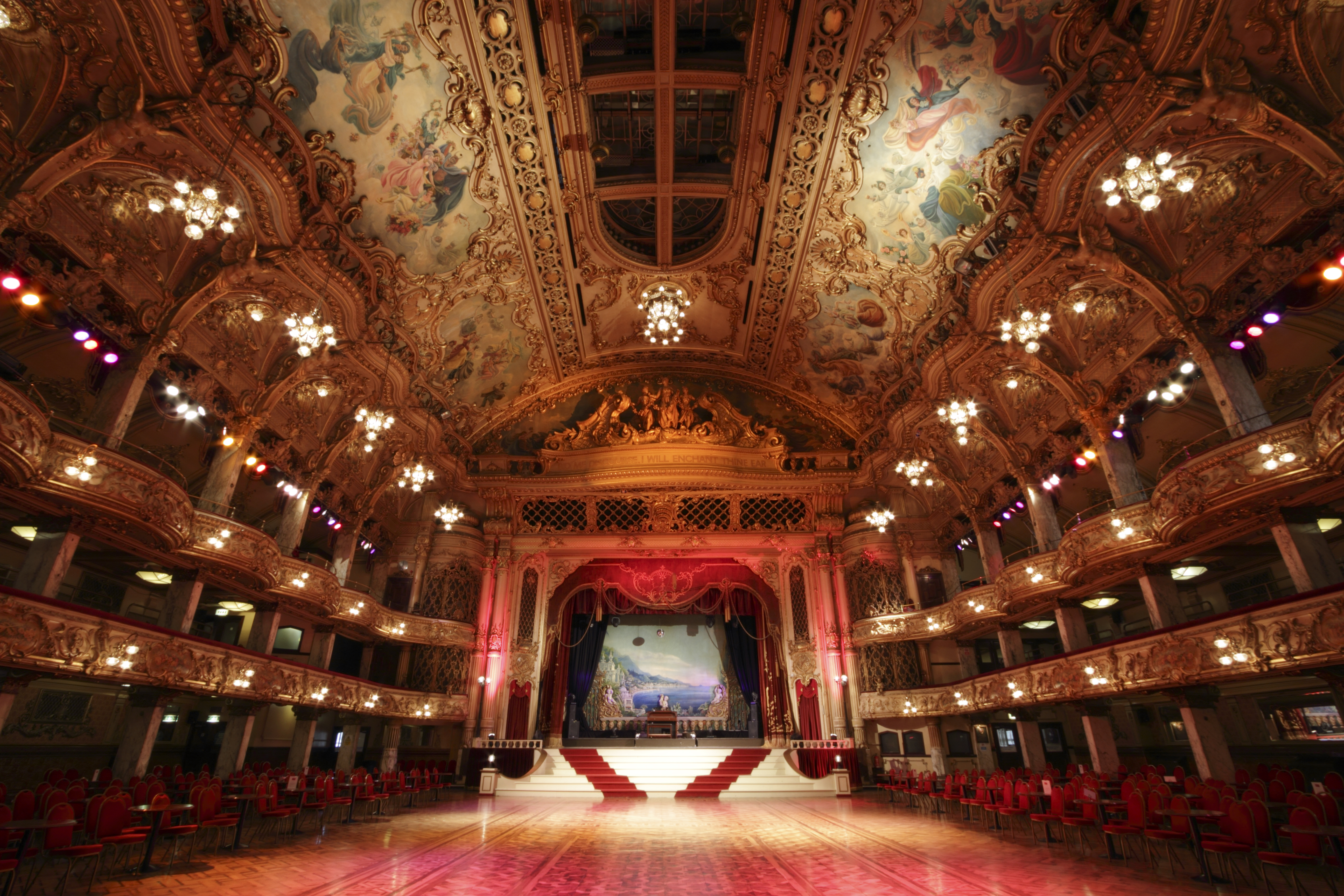 World famous ballroom located inside Blackpool Tower.